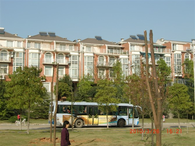 Hunan Mass Media Vocational Technical college,this photo shows The Teaching building and The School Bus.